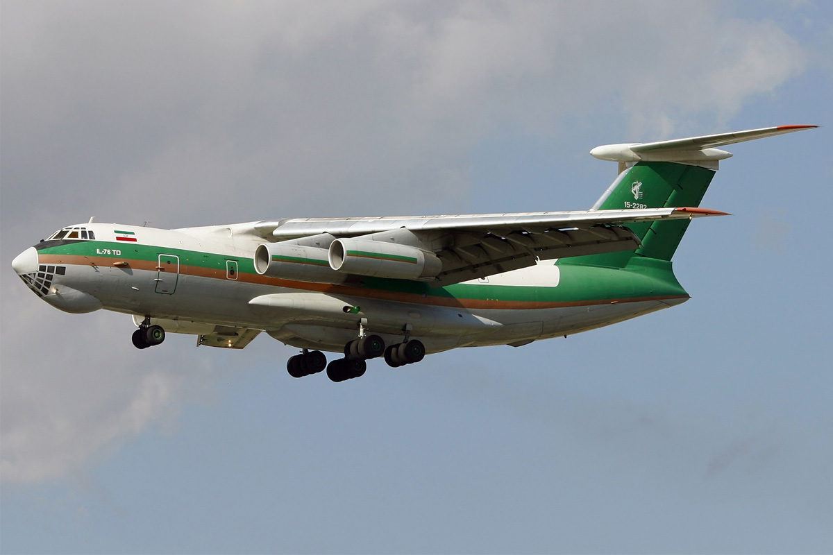 An transportation Ilyushin Il-76TD belong to IRGC Air Force landing at Mehrabad International Airport.